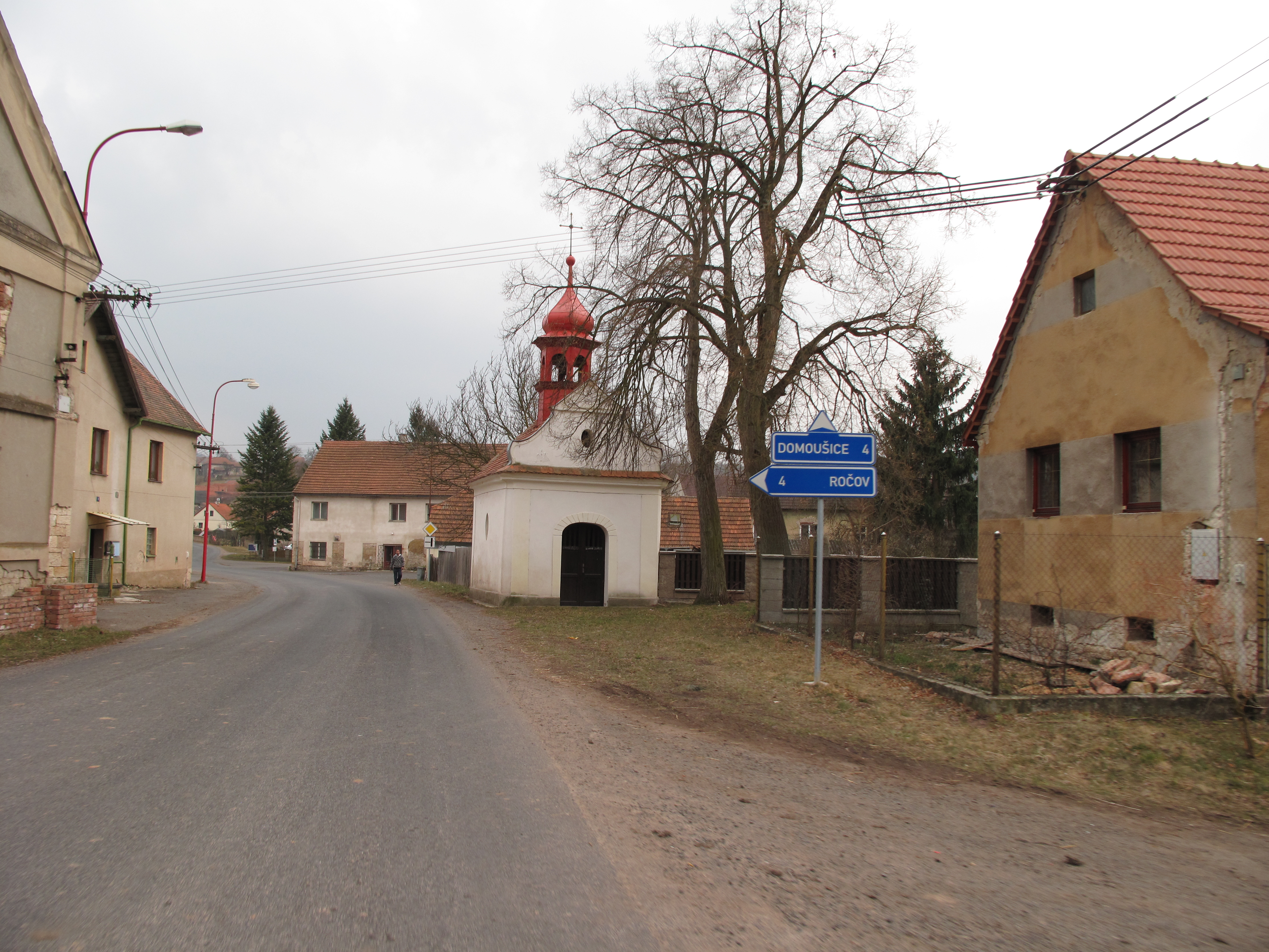 Chapel in Solopysky village (Domoušice municipality), Louny District, Czech Republic.